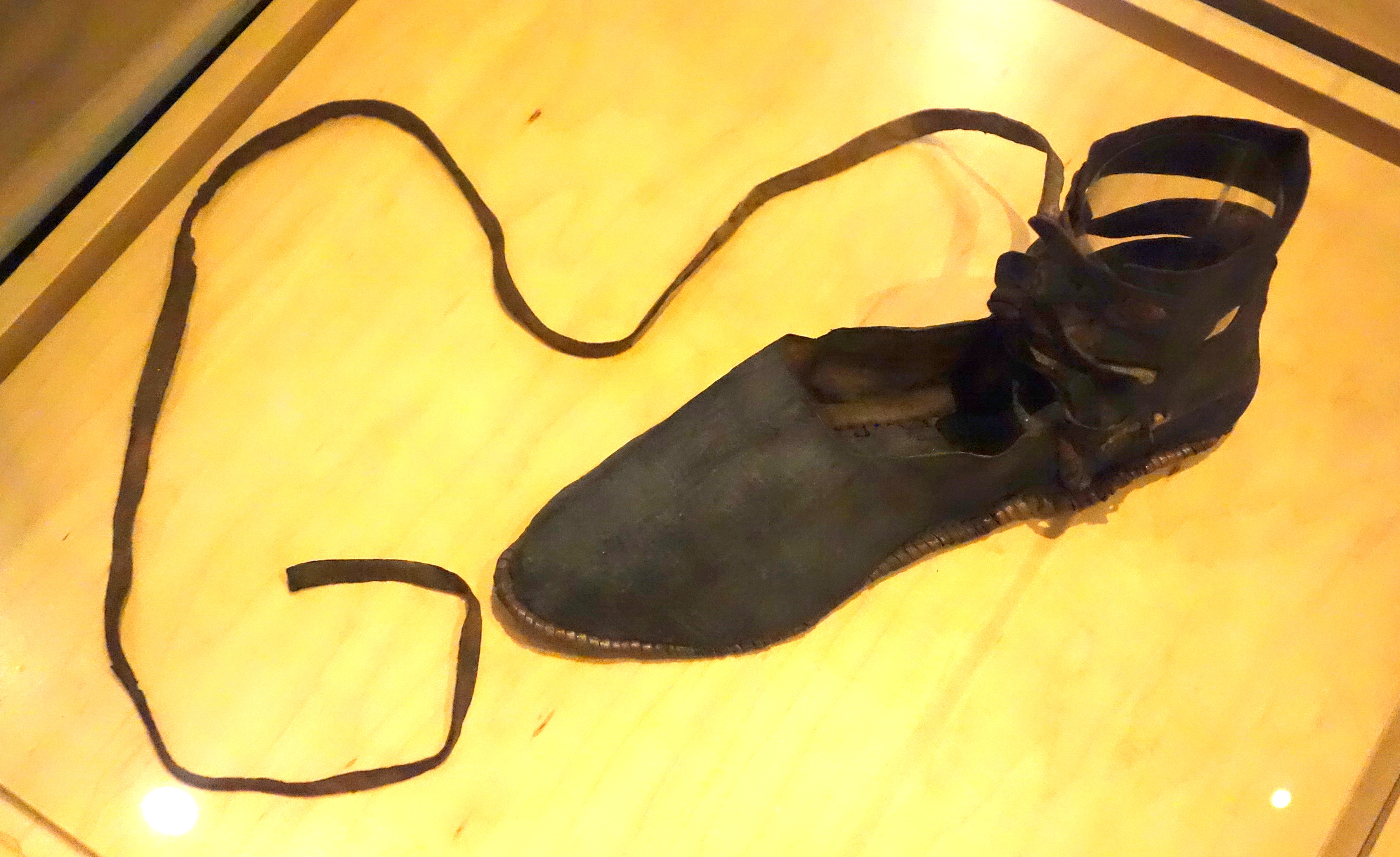 Judaic Halizah shoe (exhibit in the Bata Shoe Museum, Toronto, Ontario, Canada; the museum permitted photography without restriction) (see also 1906: ḤALIẒAH („taking off, untying“)).